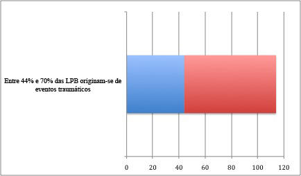 Figure 2. Between 44% and 70% of Brachial plexus injury (BPI) are from traumatic event